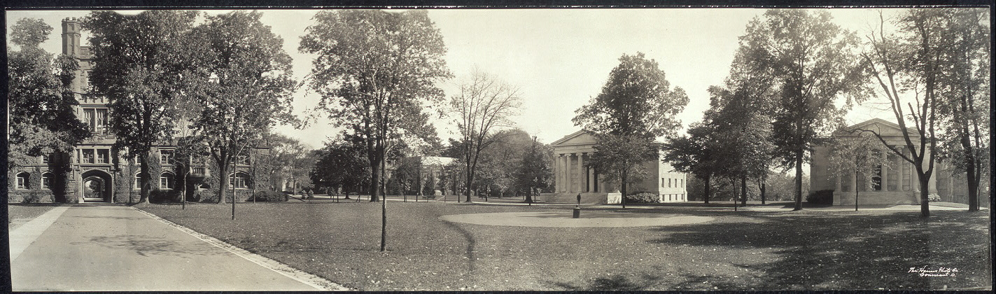 Princeton University, c. 1909